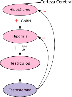 For replacing a picture on es.wiki, graph about testosterone effects made by me.